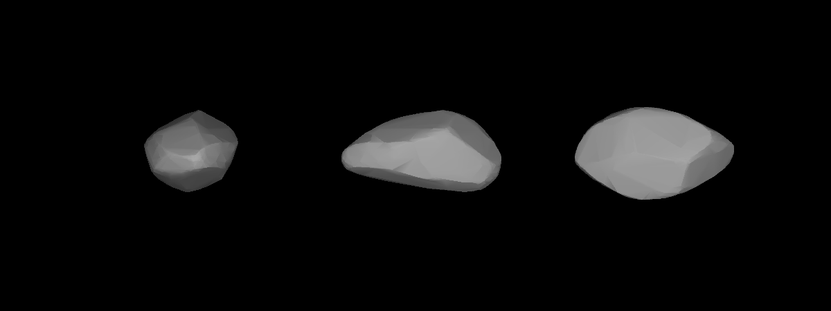 A three-dimensional model of 573 Recha that was computed using light curve inversion techniques.